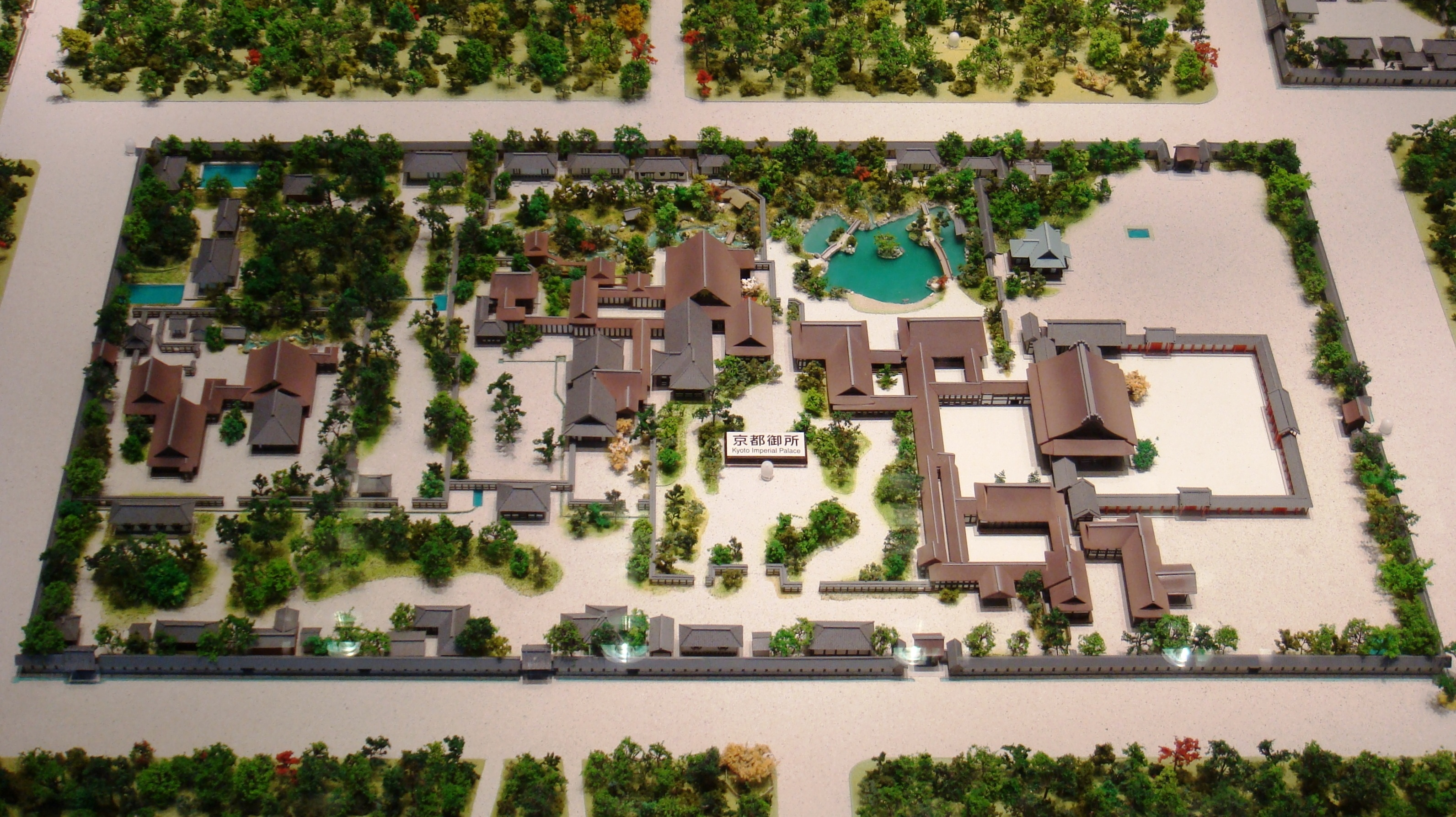 closeup view of miniature model of Kyoto Imperial Palace.